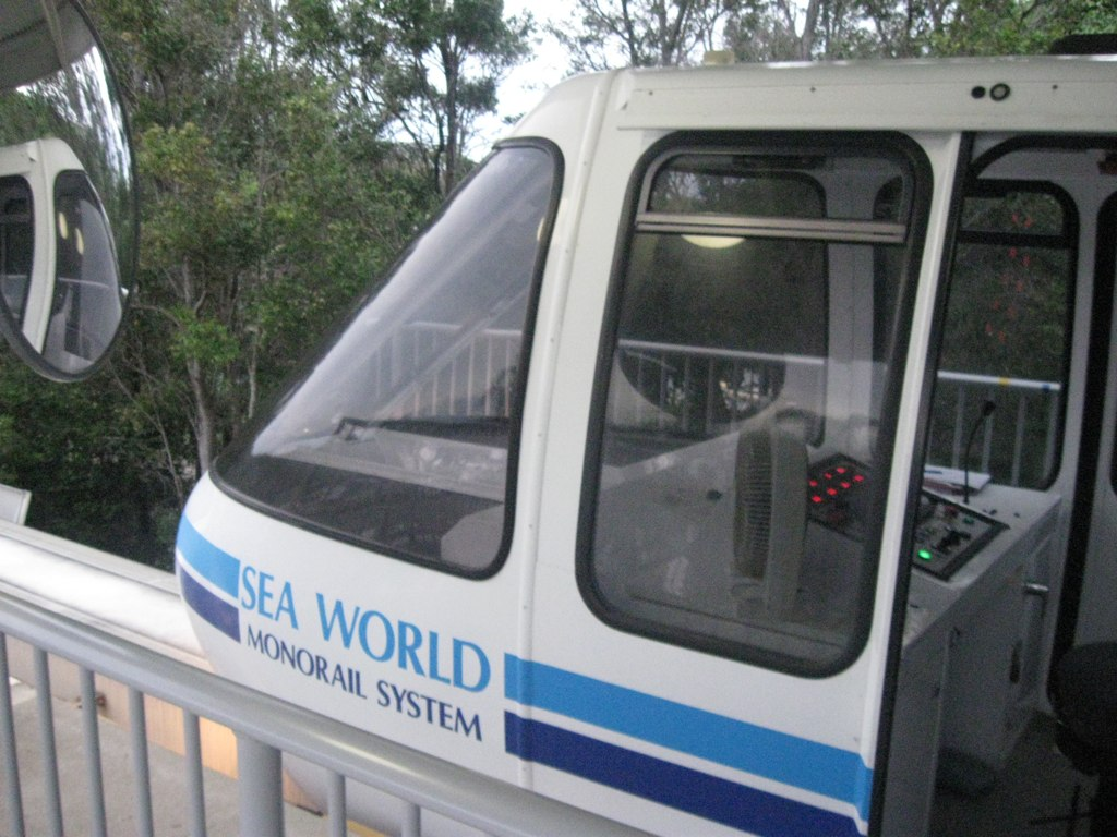 The operator cab of the Sea World Monorail System.